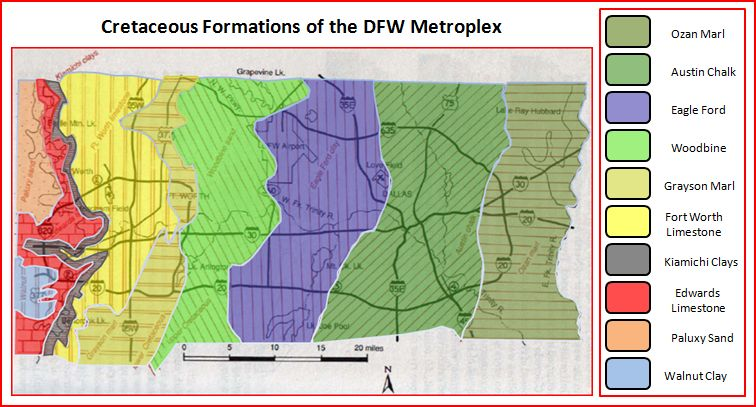 Cretaceous Formations of the Dallas-Fort Worth Metroplex